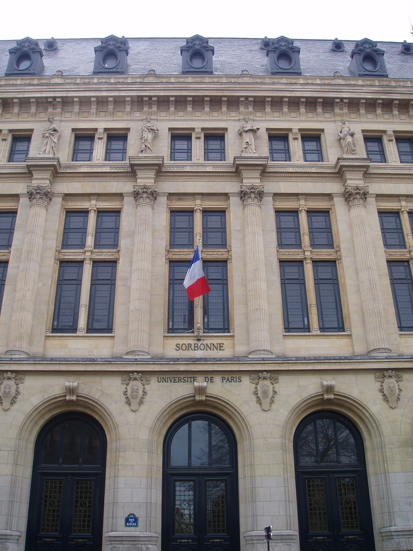 Front entrance to the Sorbonne, Paris, France. Photographed in 2007. Self-made photograph.